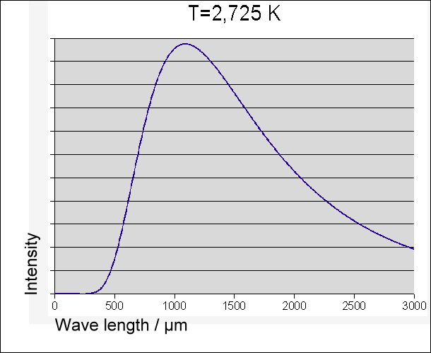 Black body radiation for T=2.725K, which is the temperature of the cosmic background radiation.